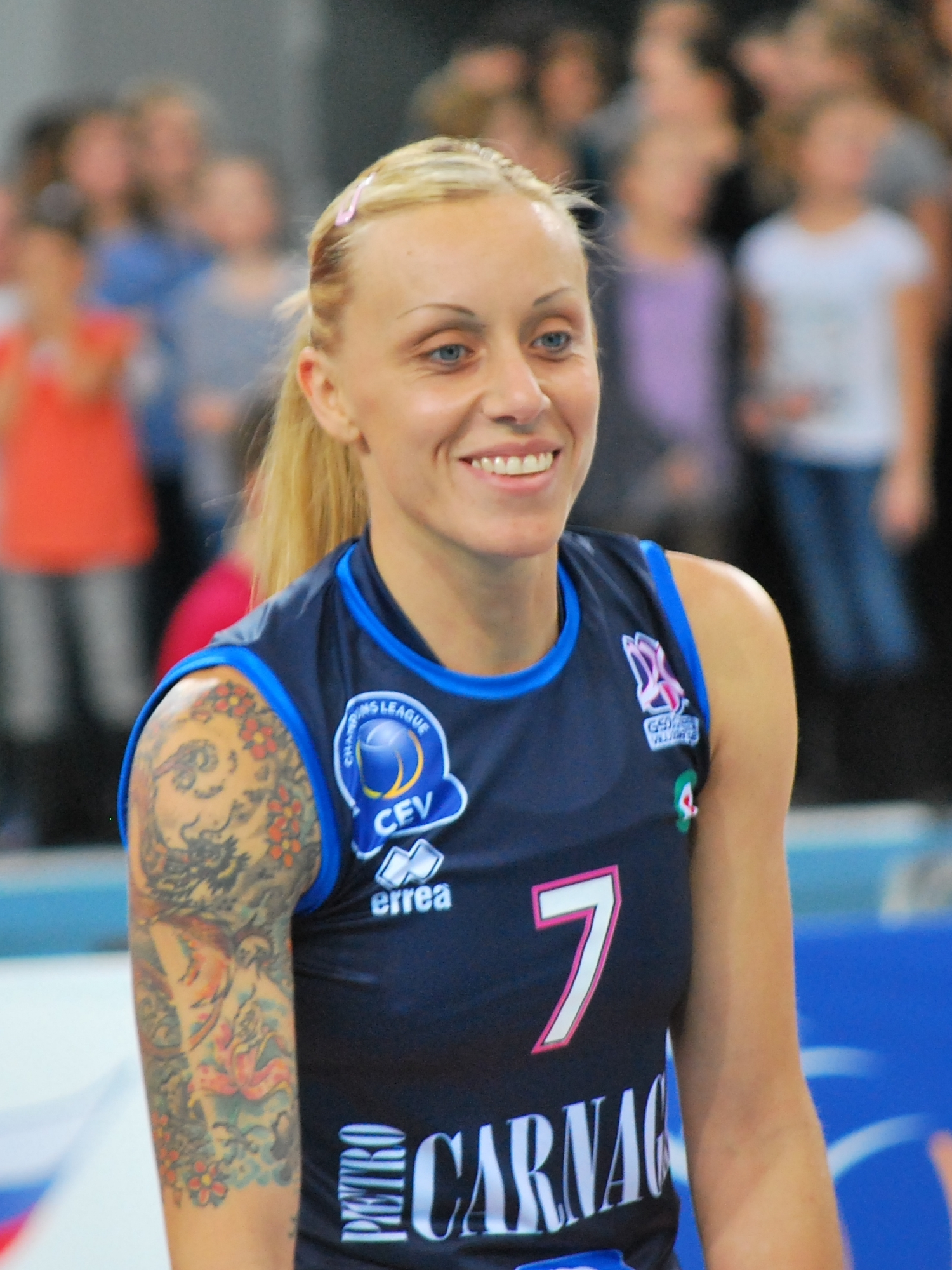 Chiara Negrini, italian volleyball player